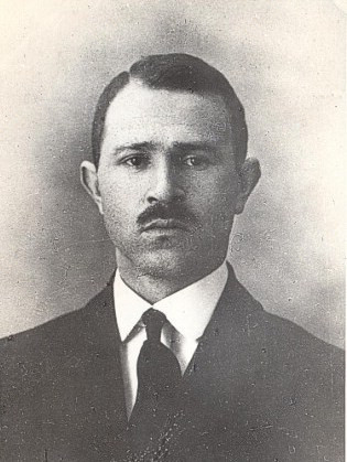 Jeyhun Hajibeyli (1882-1962), an Azerbaijani publicist, journalist and ethnographer.